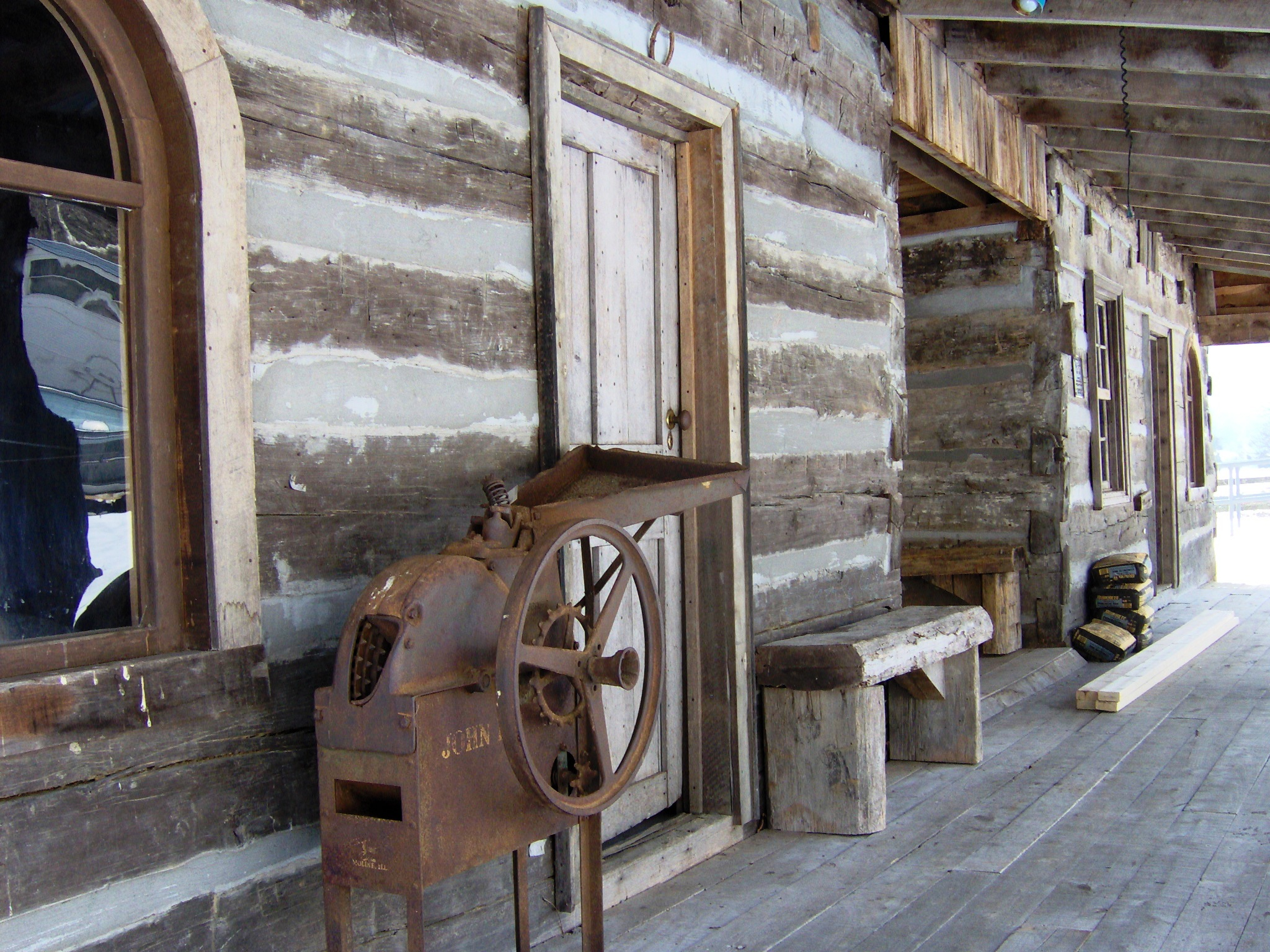 Close-up of the Mahala Mullins Cabin front porch in the Vardy Blackwater community of Hancock County, Tennessee, USA. The tools and furniture on display were donated by the descendants of the Newmans Ridge area's early settlers. Mahala Mullins (1824–1898) was a legendary Melungeon moonshiner.